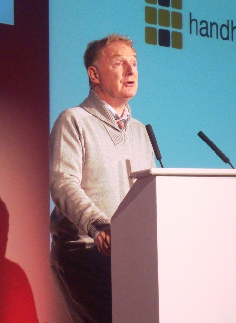 Punk icon and agent provocateur Malcolm McLaren goes off on his own learning journey.